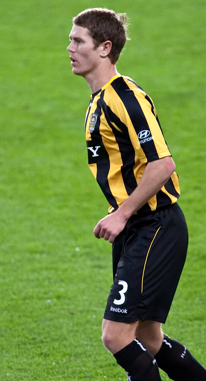 Tony Lochhead playing for the Wellington Phoenix against Sydney FC in the 2009-10 A-League.